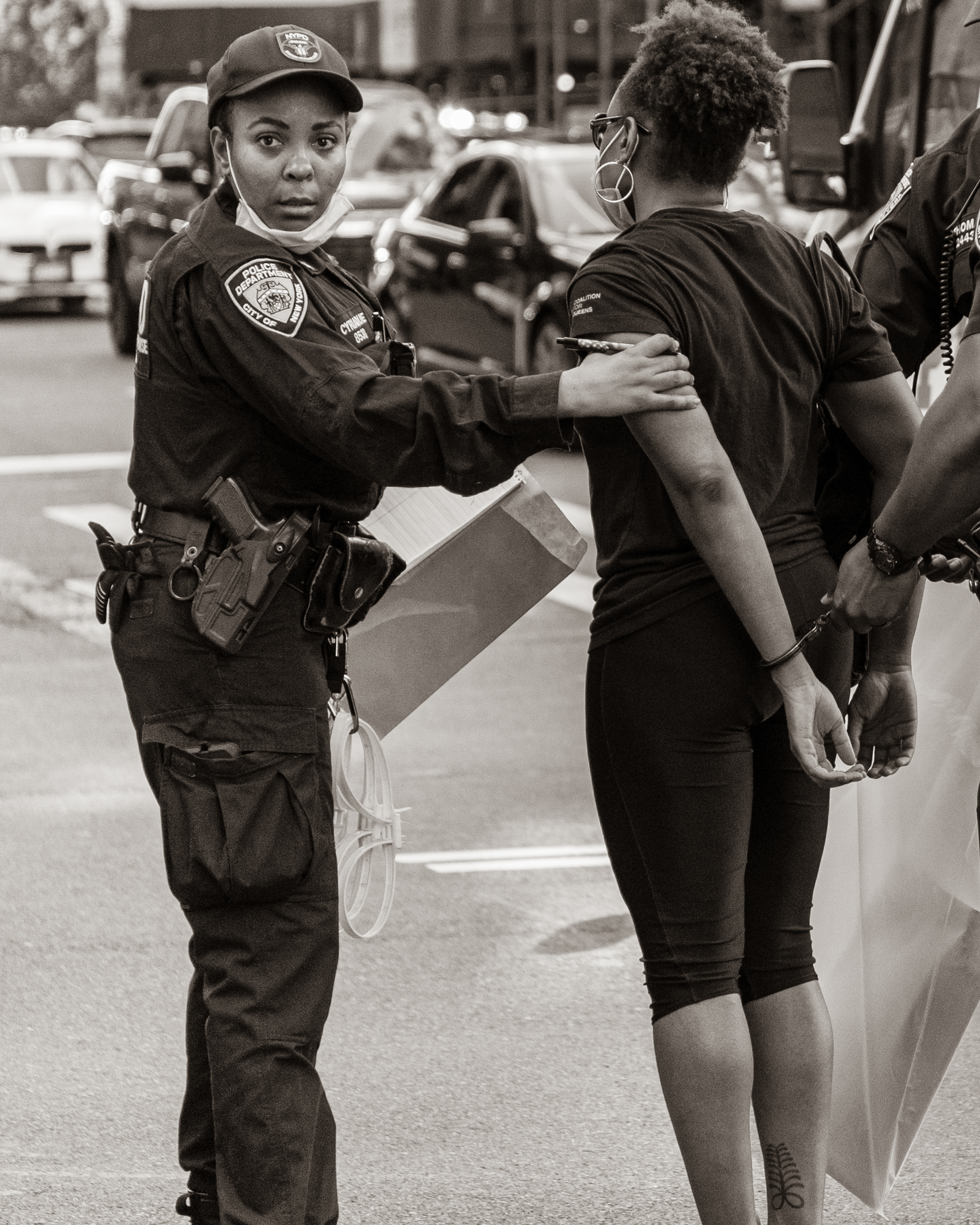 George Floyd protests in New York City